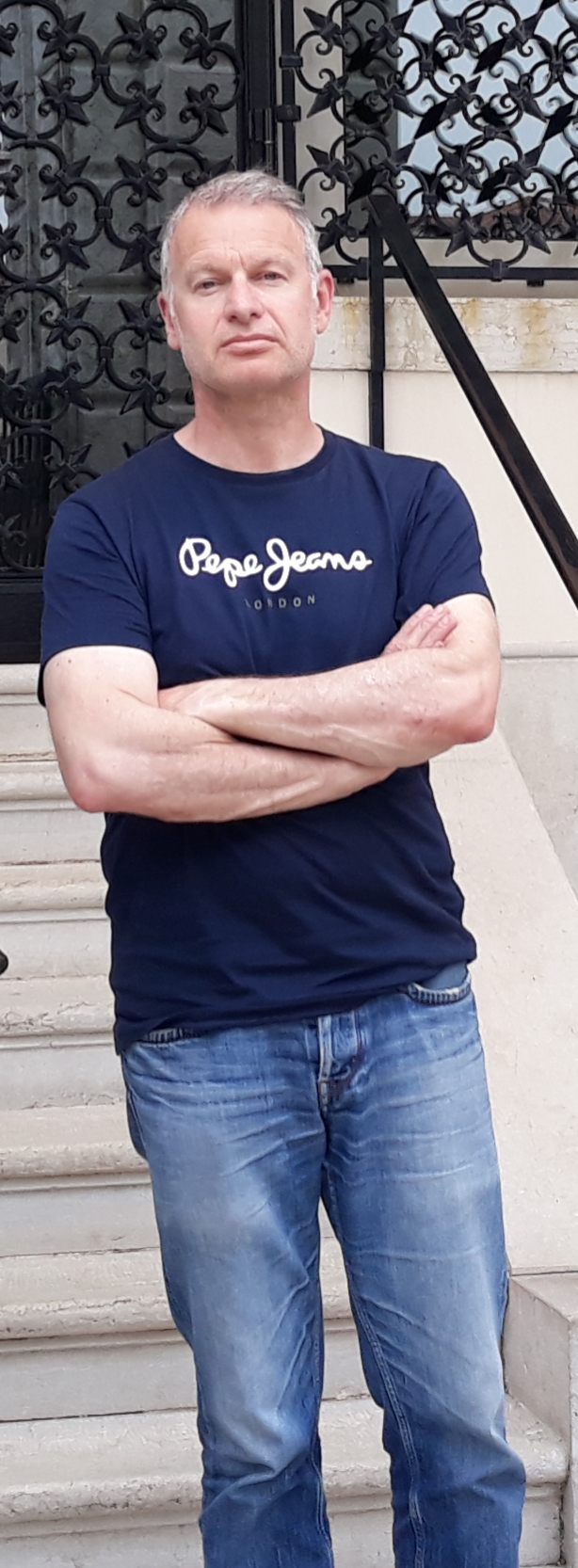 Rafael Fernández